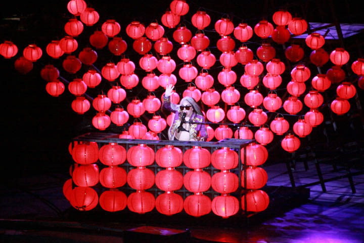 Lady Gaga performing "Hair" on a 2011 promotional concert in Taichung, Taiwan.